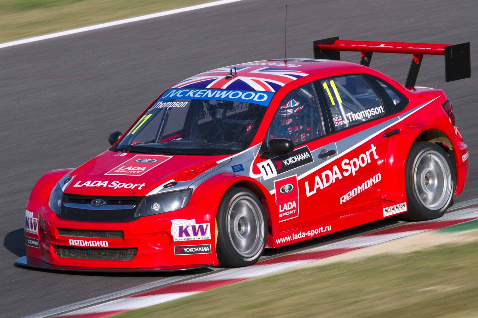 World Touring Car Championship 2014 Race of Japan: James Thompson (Lada Sport)